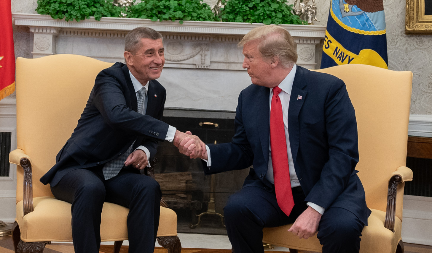 President Donald J. Trump and First Lady Melania Trump welcome the Prime Minister of the Czech Republic and Mrs. Monika Babišová to the White House, Thursday March 7, 2019 (Official White House Photo by Shealah Craighead)